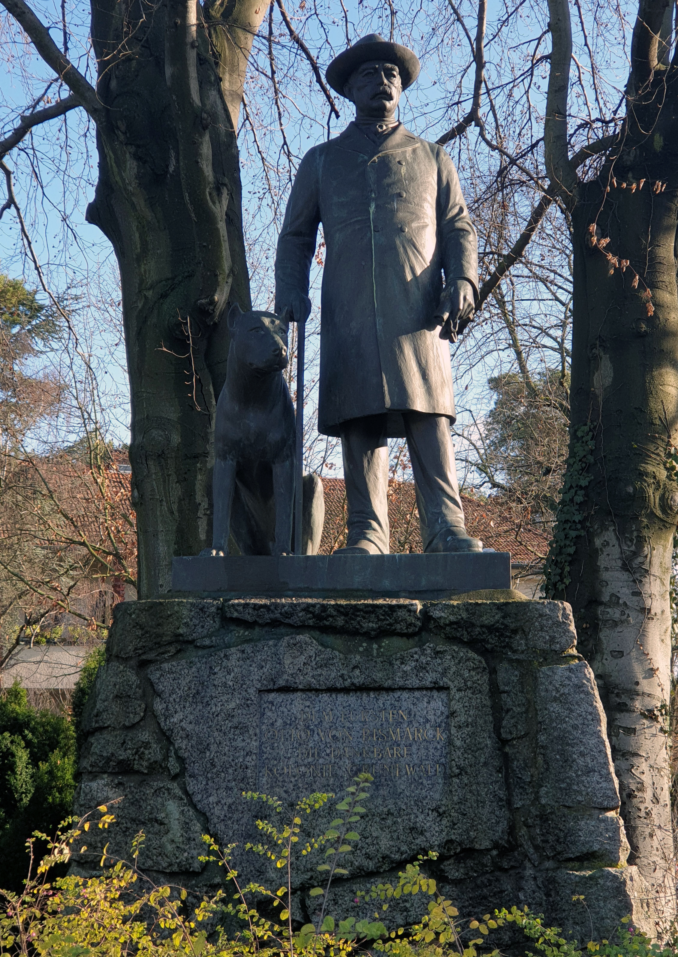 Statue, "Bismarckdenkmal" by Max Klein and Harald Haacke, 1897, Bismarckplatz, Berlin-Grunewald, Germany